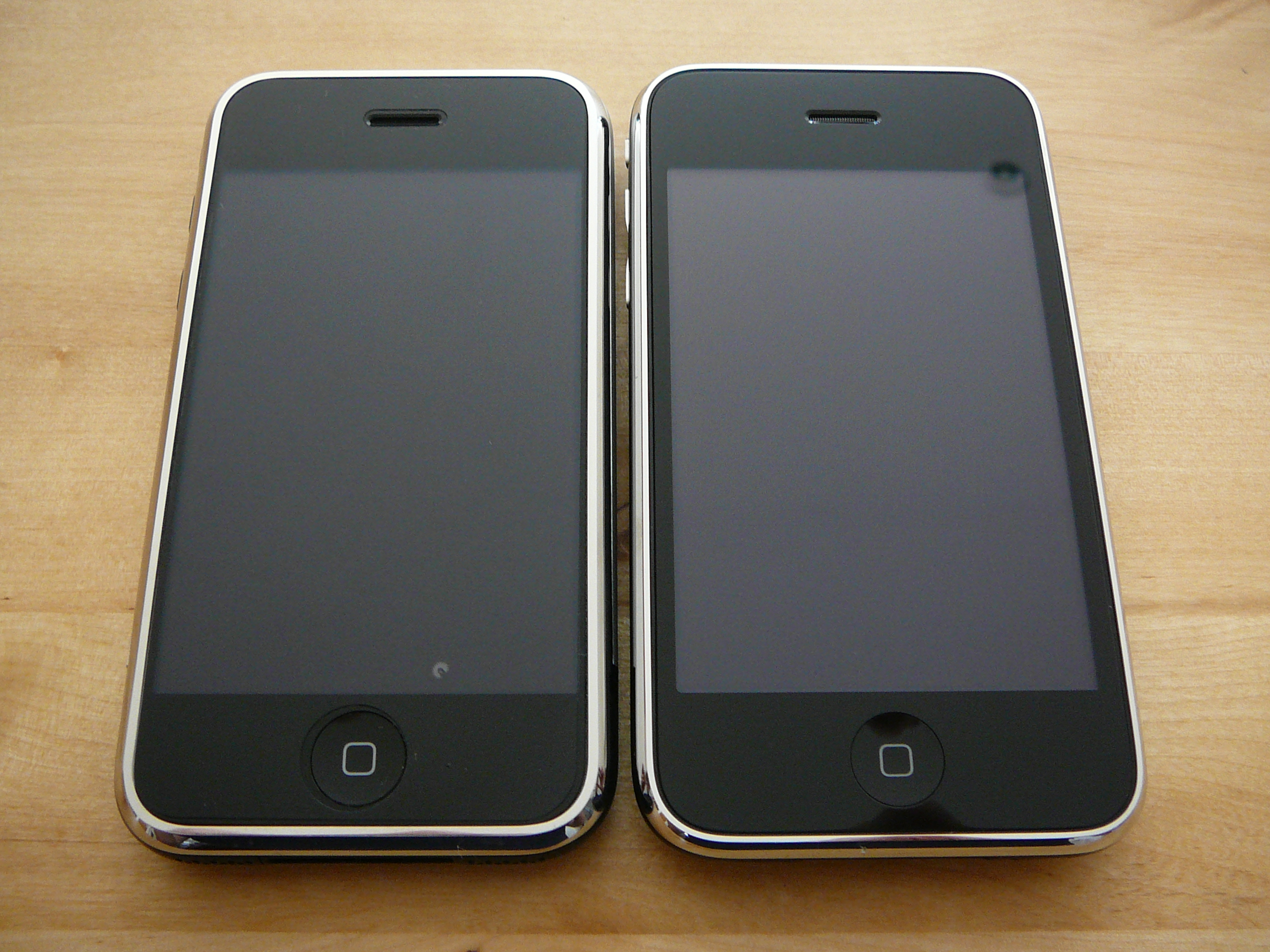 See related blog post